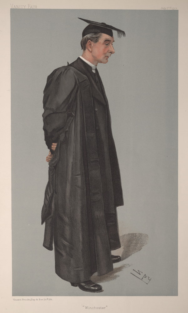 Men of the Day No.885: Caricature of The Hubert Murray Burge, Head Master of Winchester. Caption reads: "Winchester"